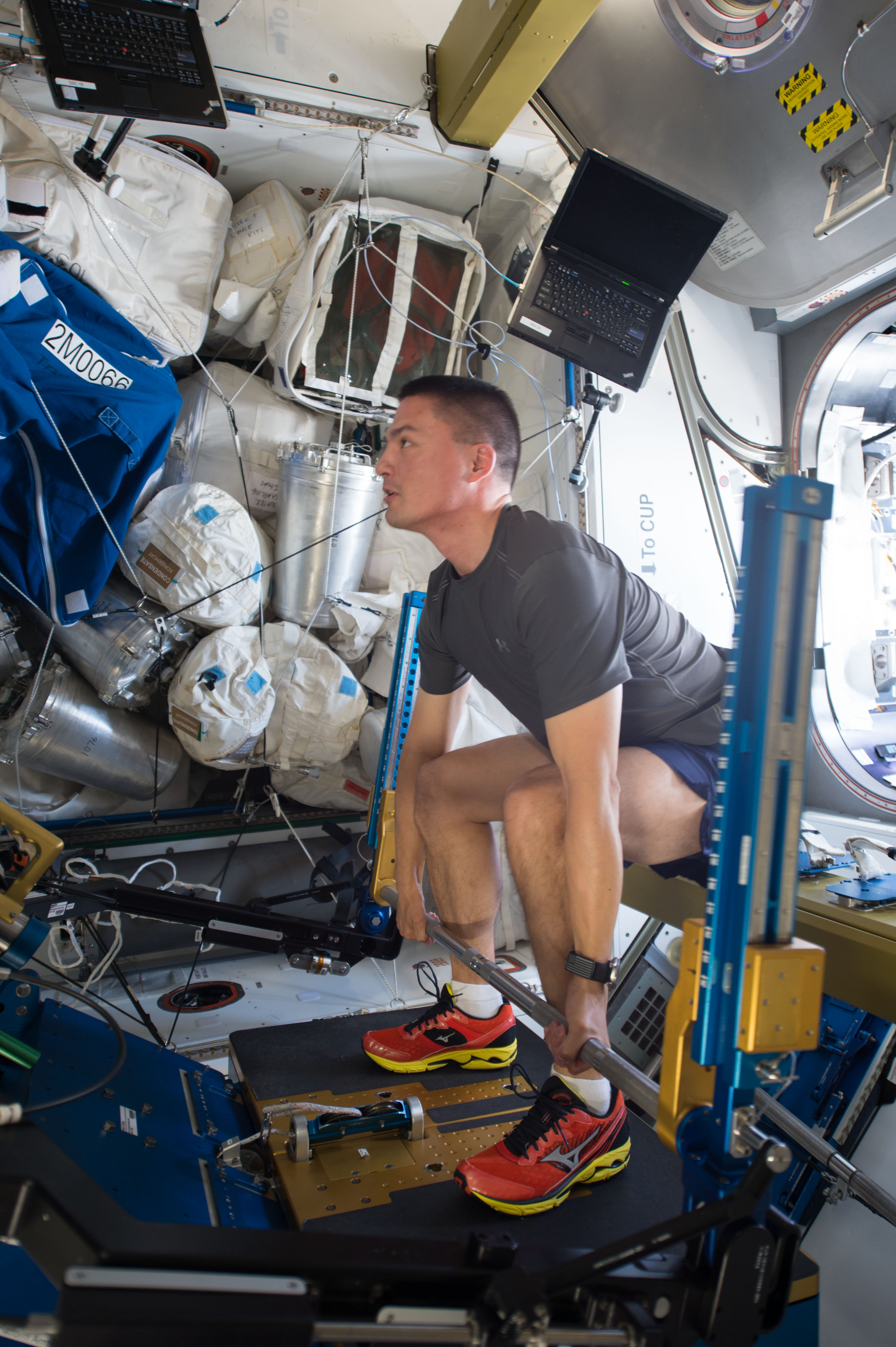 Newly arrived NASA astronaut Kjell Lindgren exercises on the International Space Station using the Advanced Resistive Exercise Device to help mitigate the potentially adverse effects of long duration stays in microgravity.